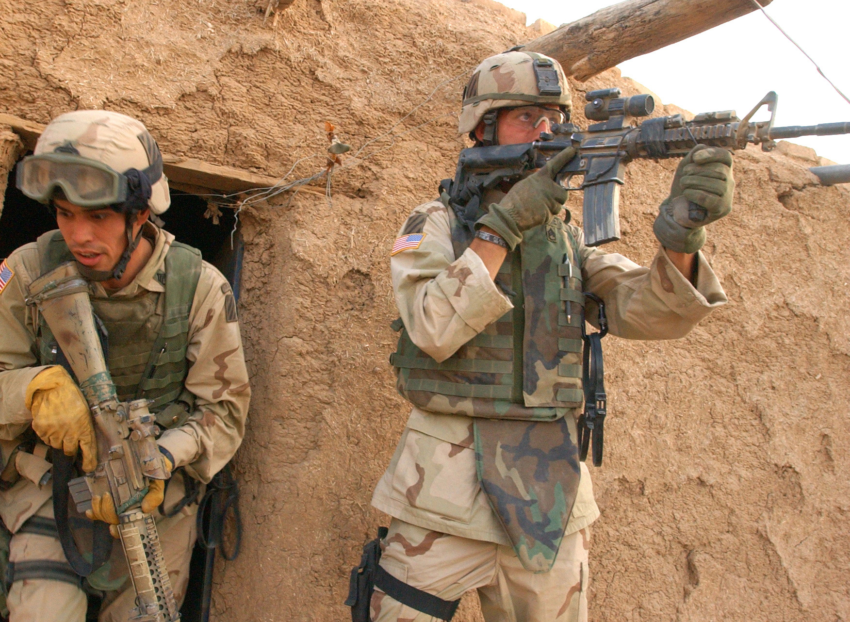 Sniper section leader Staff Sgt. Logan Siebert, from Headquarters and Headquarters Company, 1st Battalion, 15th Infantry Regiment, 3rd Infantry Division, Task Force Liberty, emerges from a room he searched in a village north of Forward Operating Base Mackenzie, Iraq, while Staff Sgt. Fritz Autenrieth, Section B team leader, provides cover.